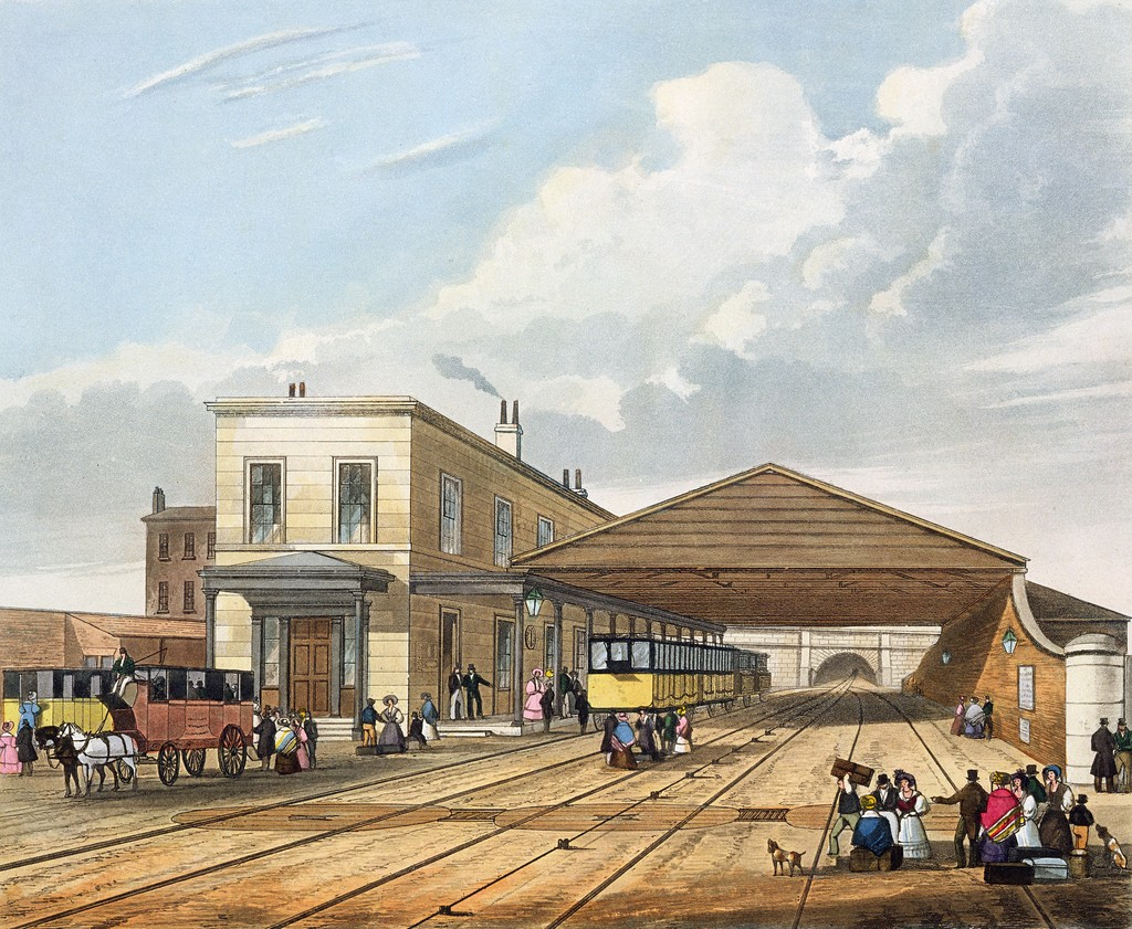 A view of Crown Street station in Liverpool, the original passenger terminus of the Liverpool and Manchester Railway.